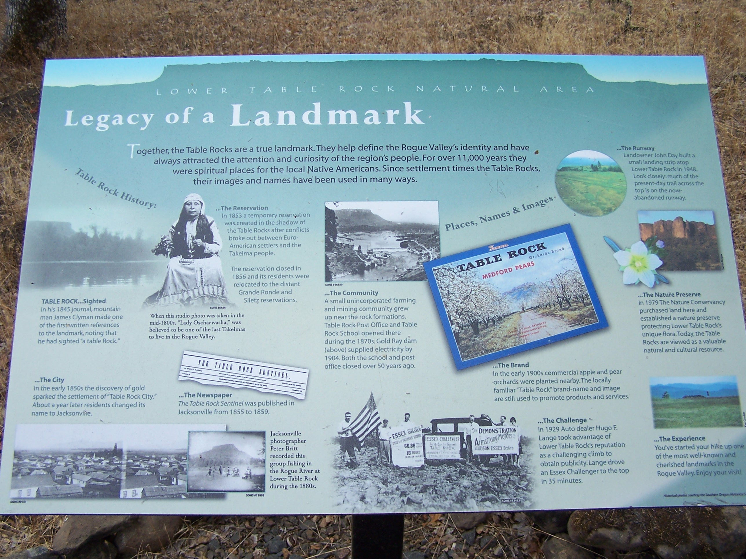 The seventh interpretive sign on the Lower Table Rock Trail.